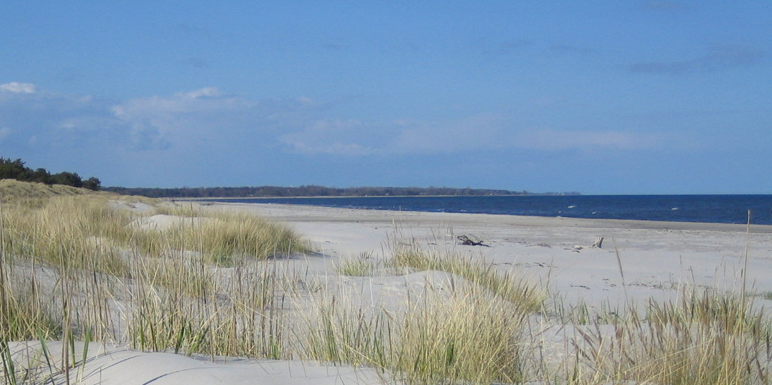 The beach at Borrby strand in Skåne, Sweden